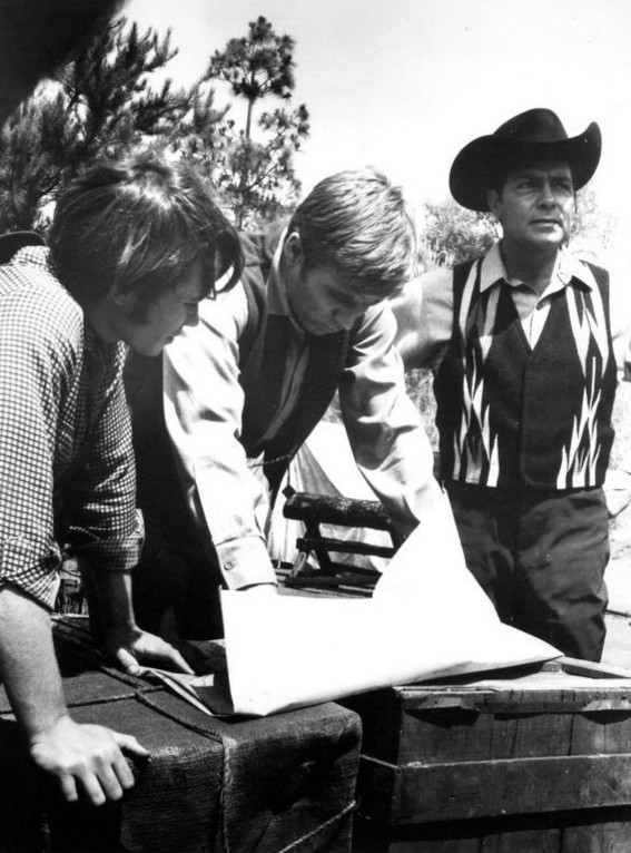 Publicity photo from the television program Iron Horse. Pictured from left: Bob Random, Gary Collins and Dale Robertson.